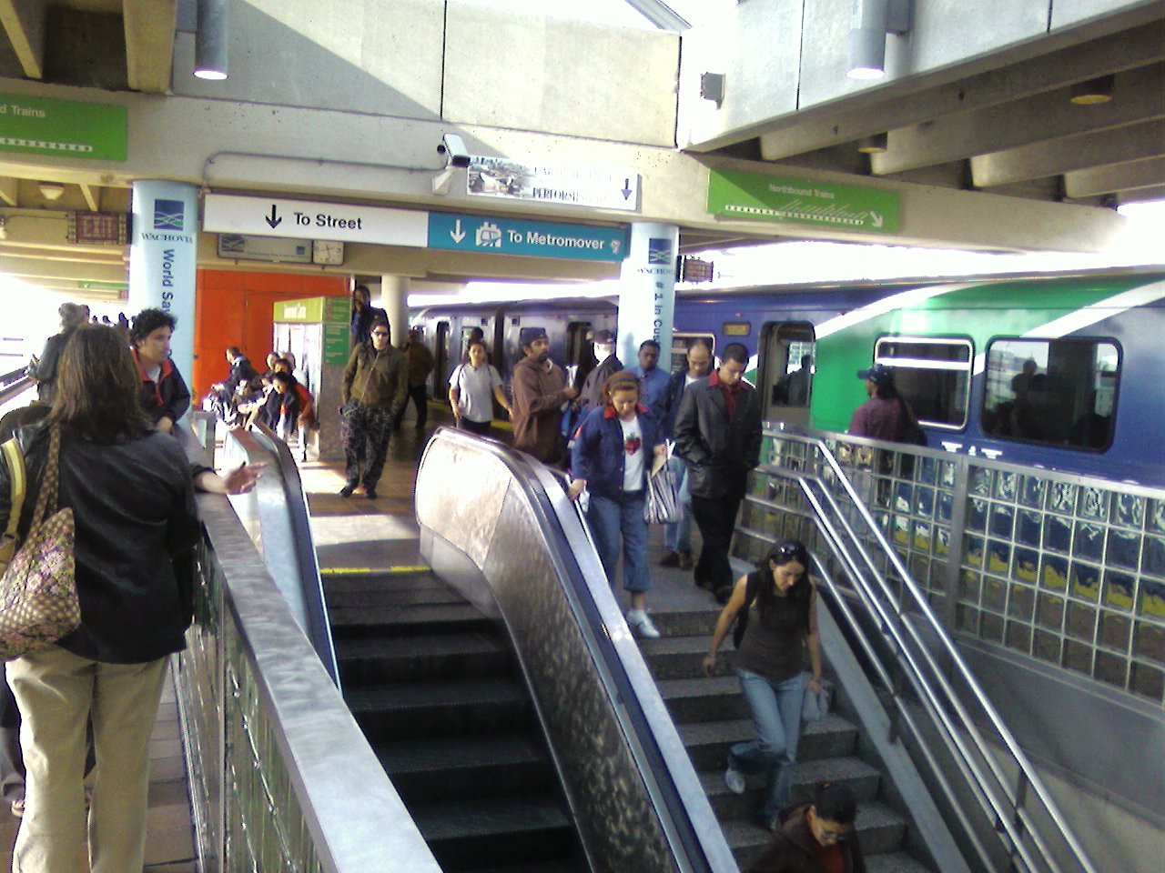 Government Center Station on the Metrorail platform at rush hour.